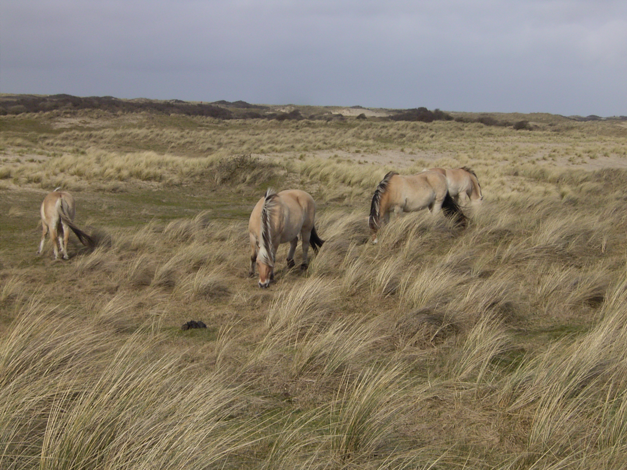 This photo shows some horss in nature area solleveld